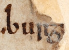 "burg" (borough) from Beowulf, line number #1968. For the translation see Beowulf; a heroic poem of the 8th century, with tr., note and appendix by T. Arnold, 1876, p. 128.